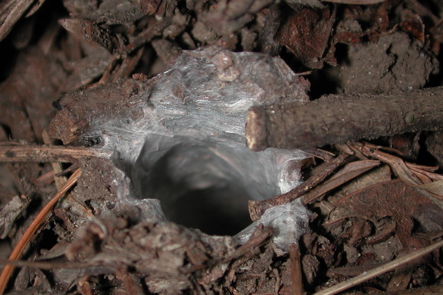 Promyrmekiaphila sp. door, open, in northern California.